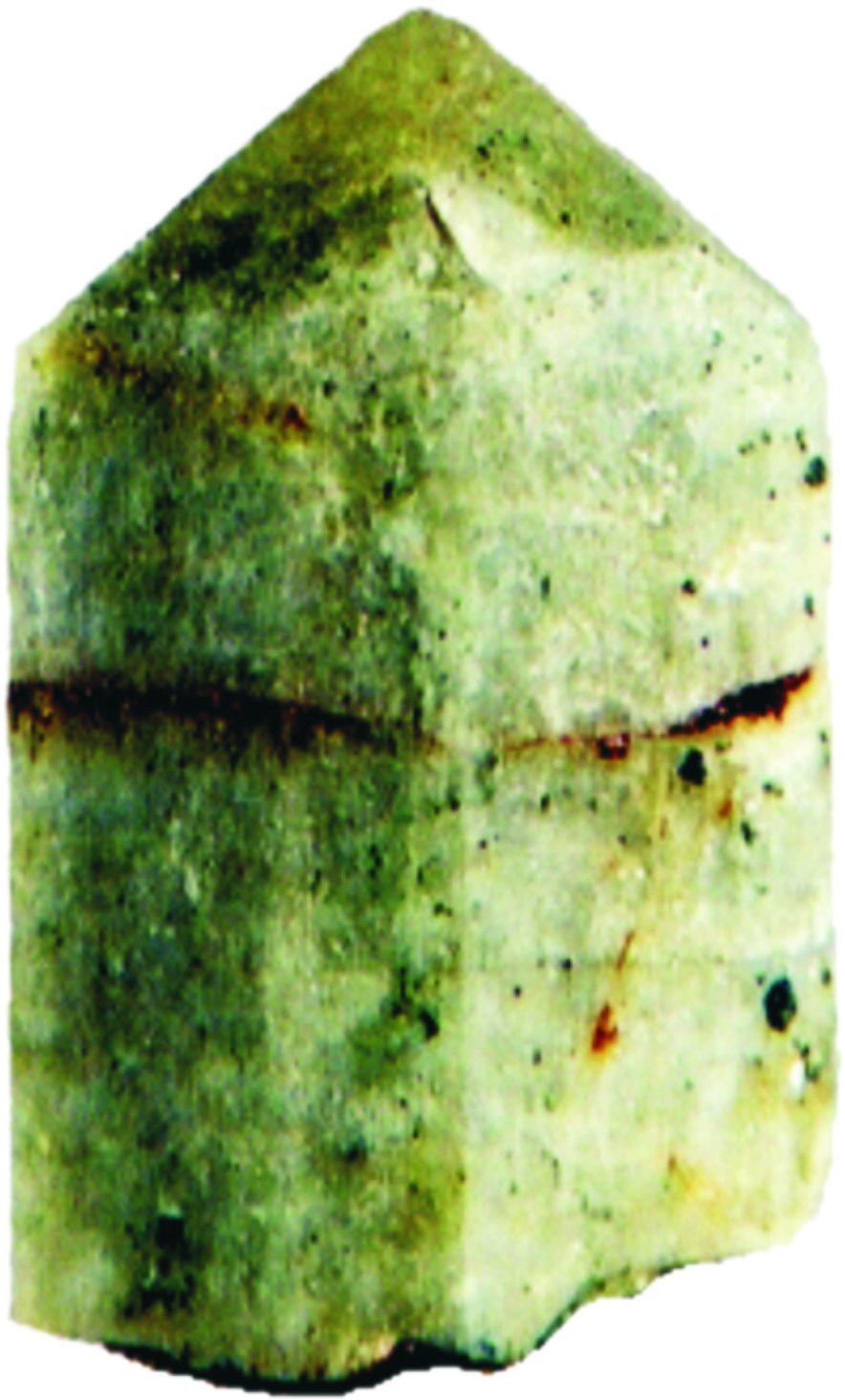 Apatite, 15 mm, Dashkesan field, Dashkesan region, Azerbaijan, from M.A. Kashkai's collection